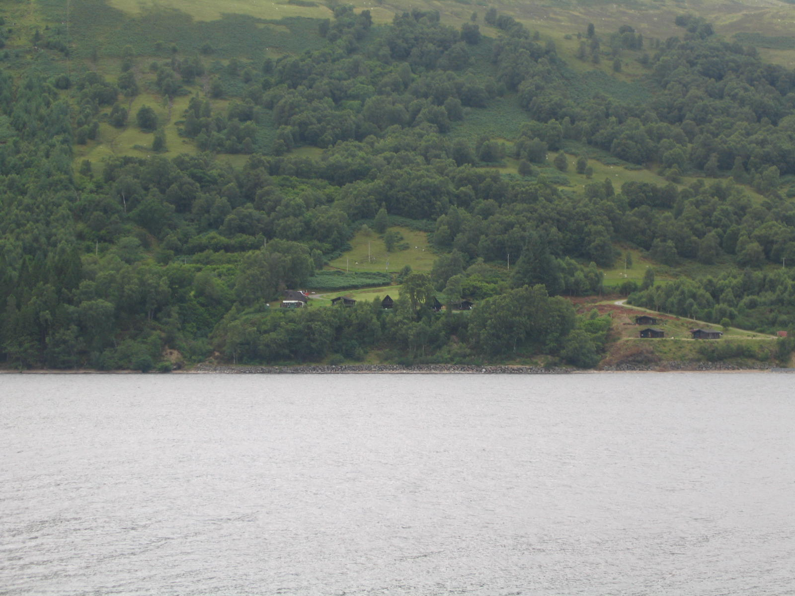 The view over Loch Lochy towards Kilfinnan, taken from the edge of the Loch, next to the A82.